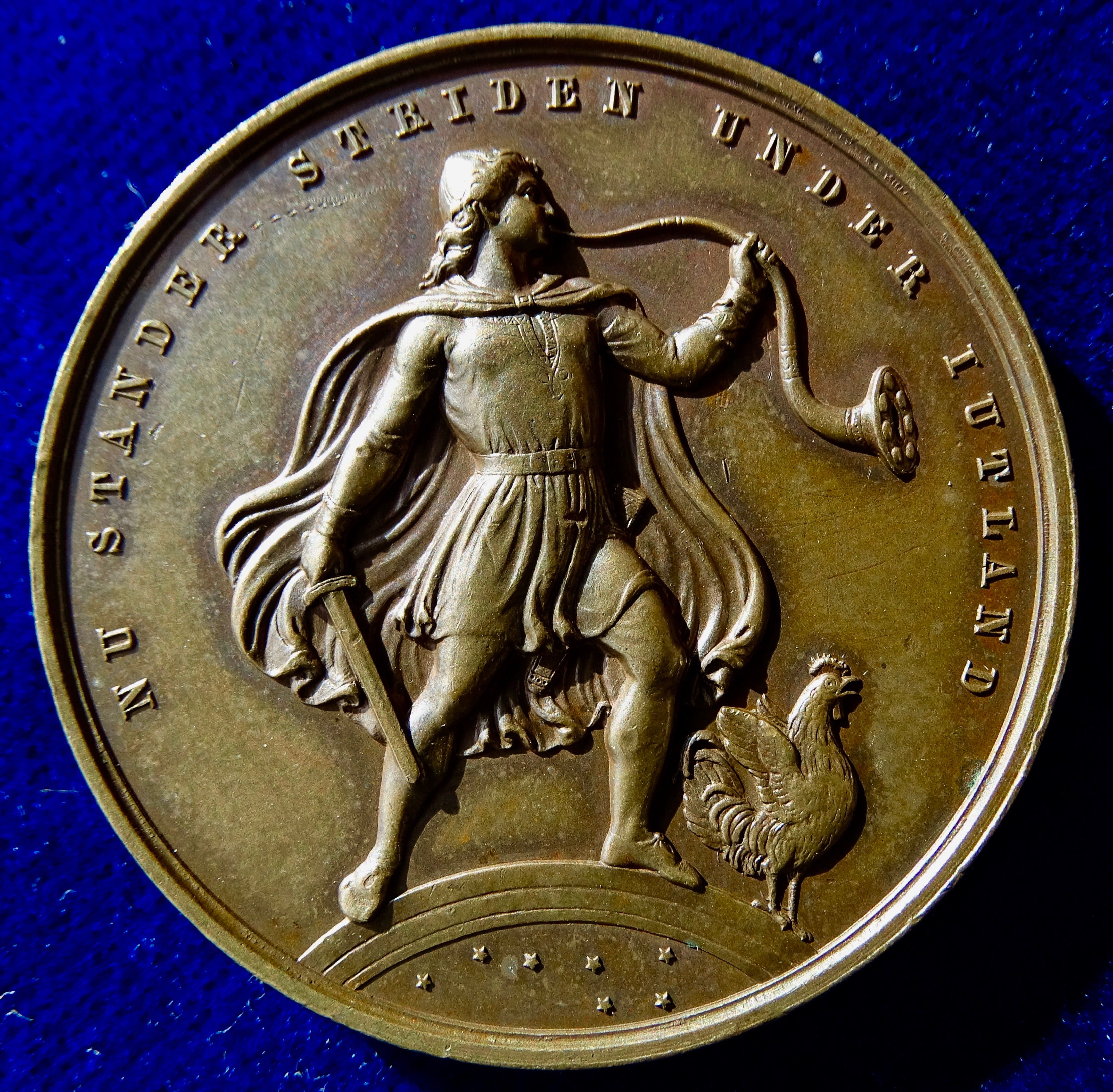 First Schleswig War 1848-1852 Danish Medal 1850 ND for Scandinavian Volunteers aiding Denmark Bronze, d. = 41 mm. Frederik VII, King of Denmark, 1848 - 1863 Viking sailing ship, with 2 Viking warriors. On its mast the coat of arms of Sweden and of Norway. Curved above: "OG BOREN BLAESER DENNEM IND FOR DANMARK". 2 lines in exergue: "TIL DE FRIVILLIGE FRA BRODERRIGERNE"/ Norse mythology god Heimdallr stands r. above the Great Bear constellation in the northern sky blowing his Gjallarhorn. Curved above: "NU STANDER STRIDEN UNDER IUTLAND". Lange 206; Forrer IV p.465 Medallist: Peter Petersen, 1810 Ribe, Denmark - 1892 Copenhagen-Frederiksberg Condition: UNCIRCULATED.